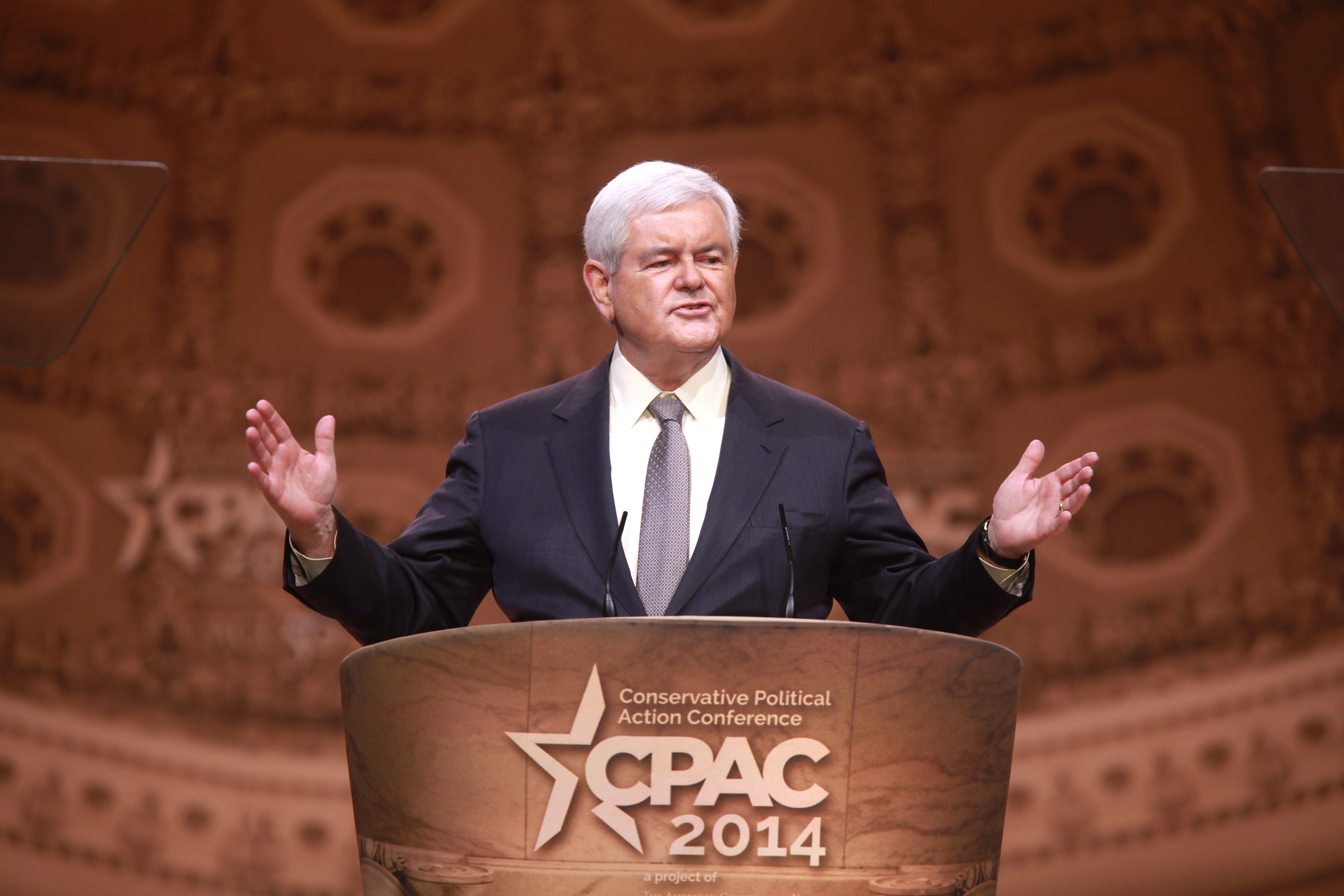 Newt Gingrich speaking at CPAC 2014 in Washington, DC.